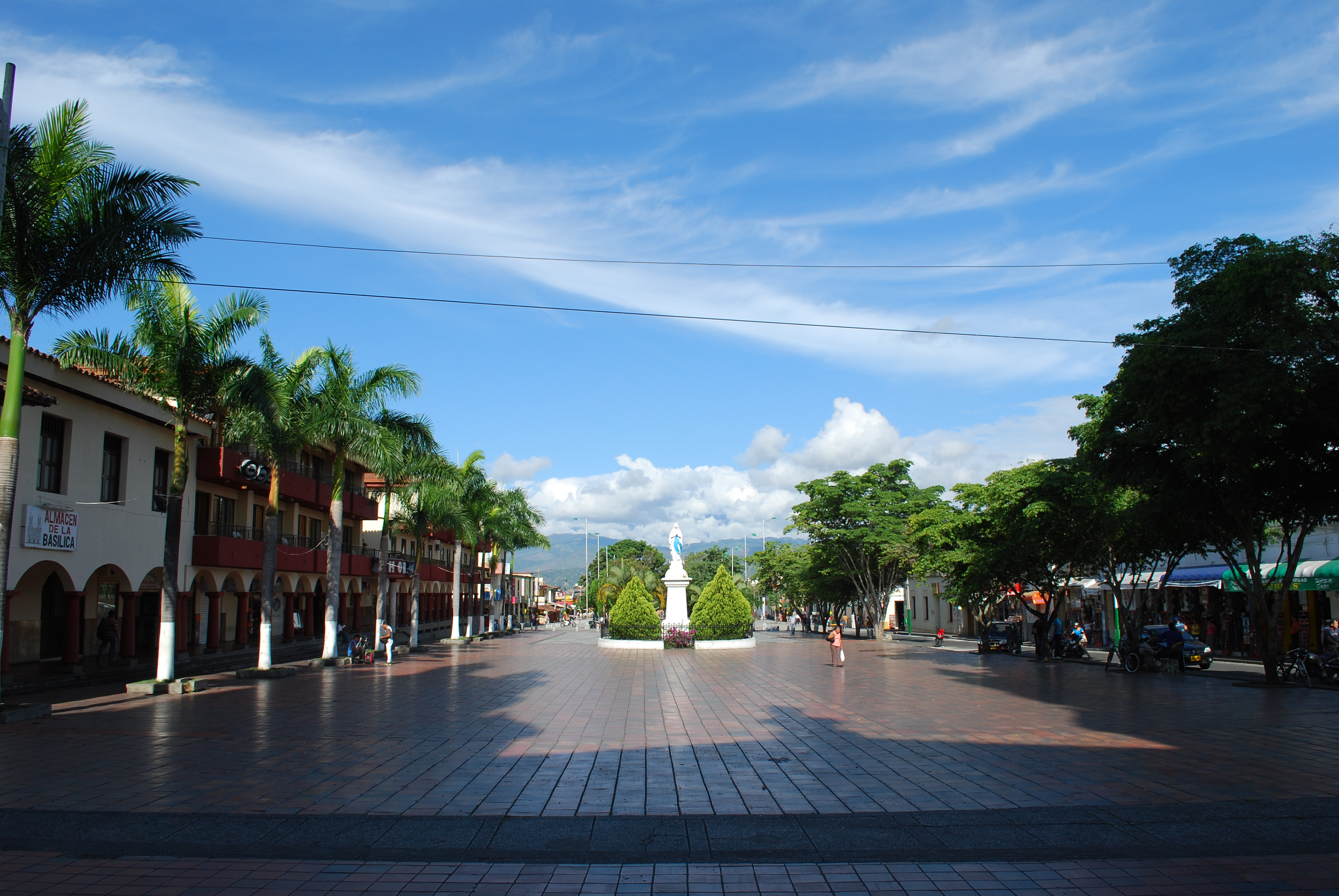 Vista of the Cauca Valley from the Basilica of Lord of Miracles